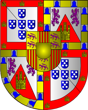 Arms of the Portuguese Counts, Marquis and Dukes of Vila Real Made by JSobral